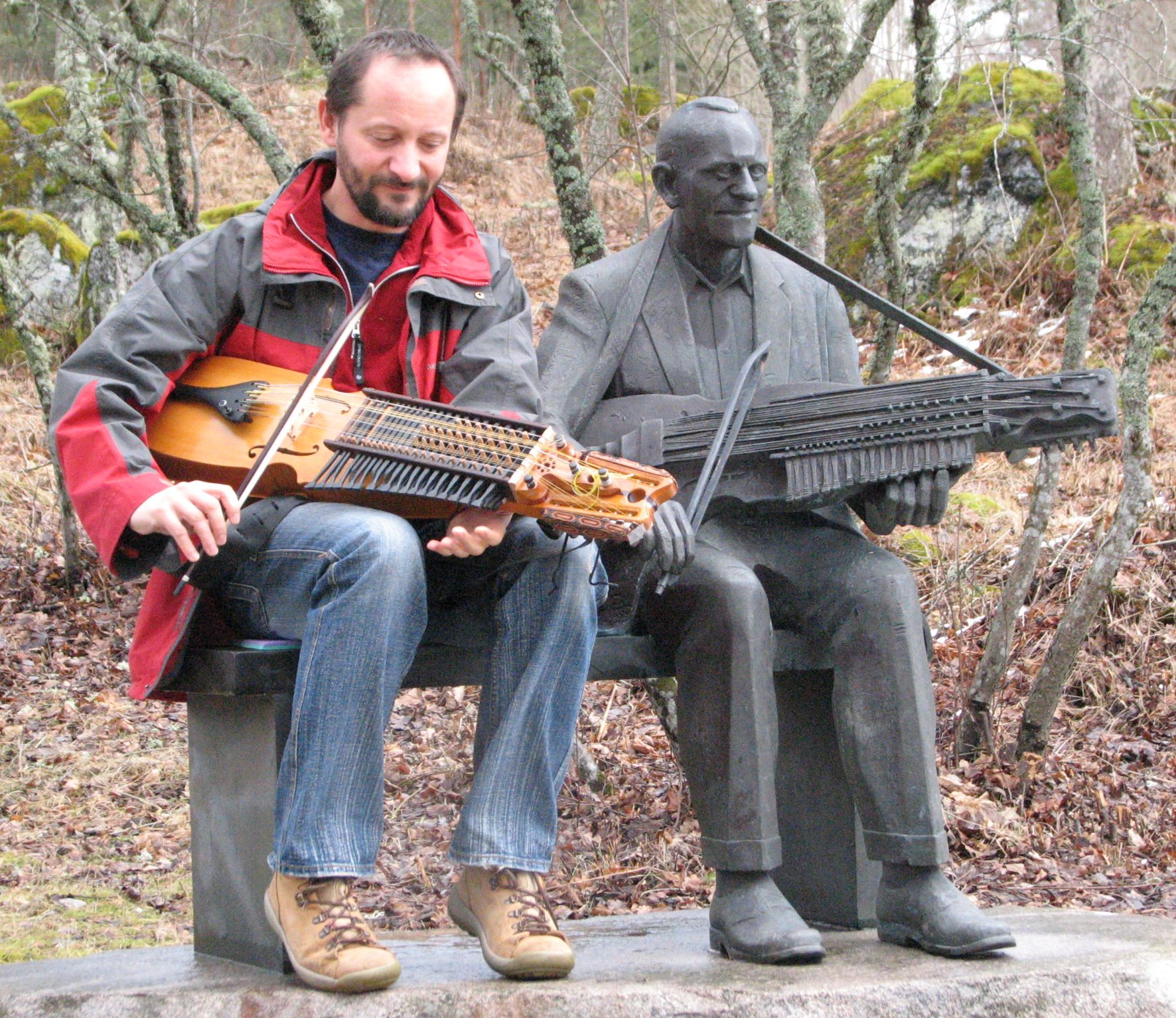 The Italian Nyckelharpa player Marco Ambrosini was one of the first and is still one of the most important musicians to renew the nyckelharpa in continental Europe after hundreds of years forgetting this instrument. On this photograph (March 2008) he is sitting and playing at the monument of the most important Swedish nyckelharpa pioneer Eric Sahlström (1912 – 1986).